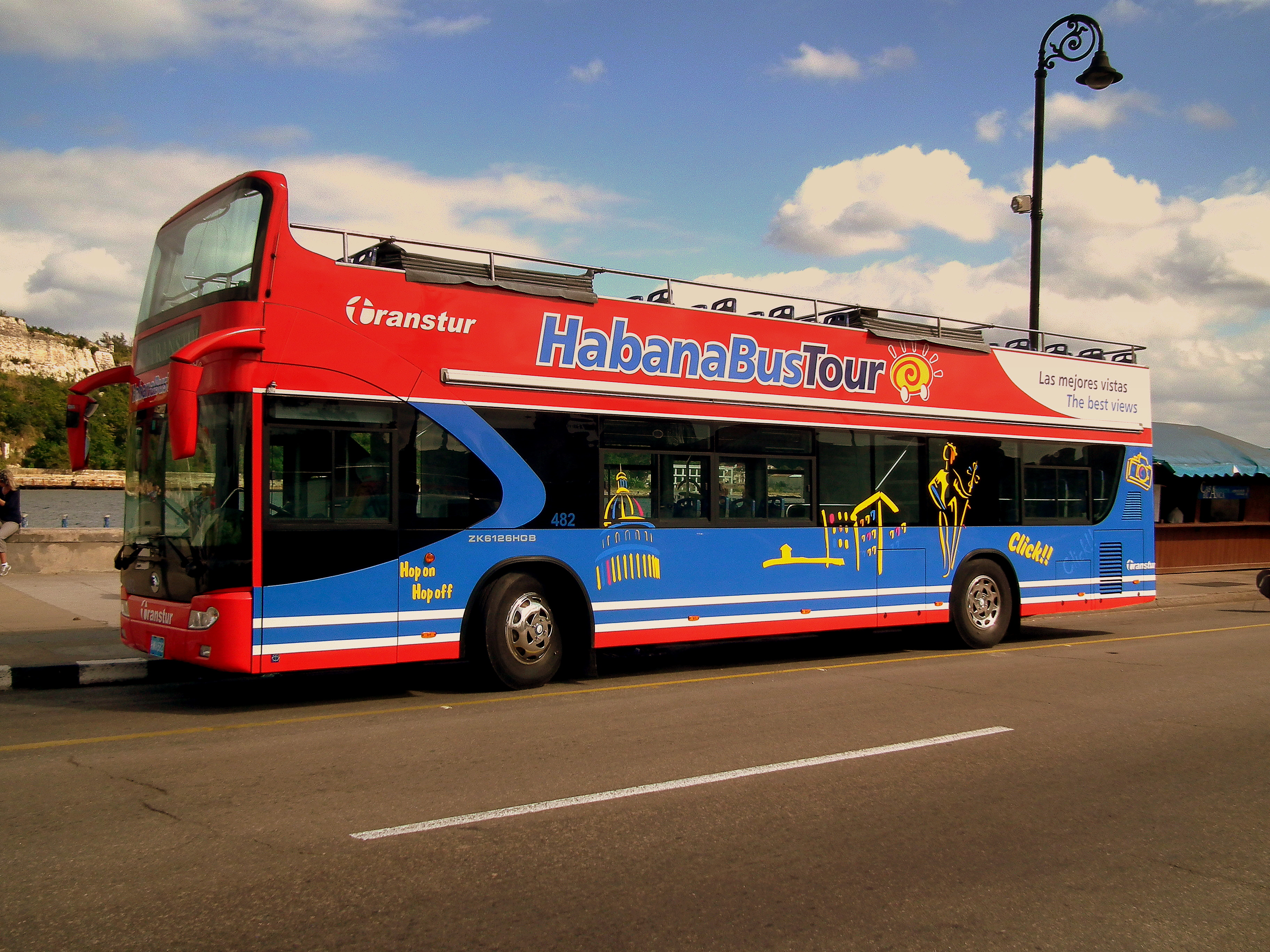 Havana Tour Bus